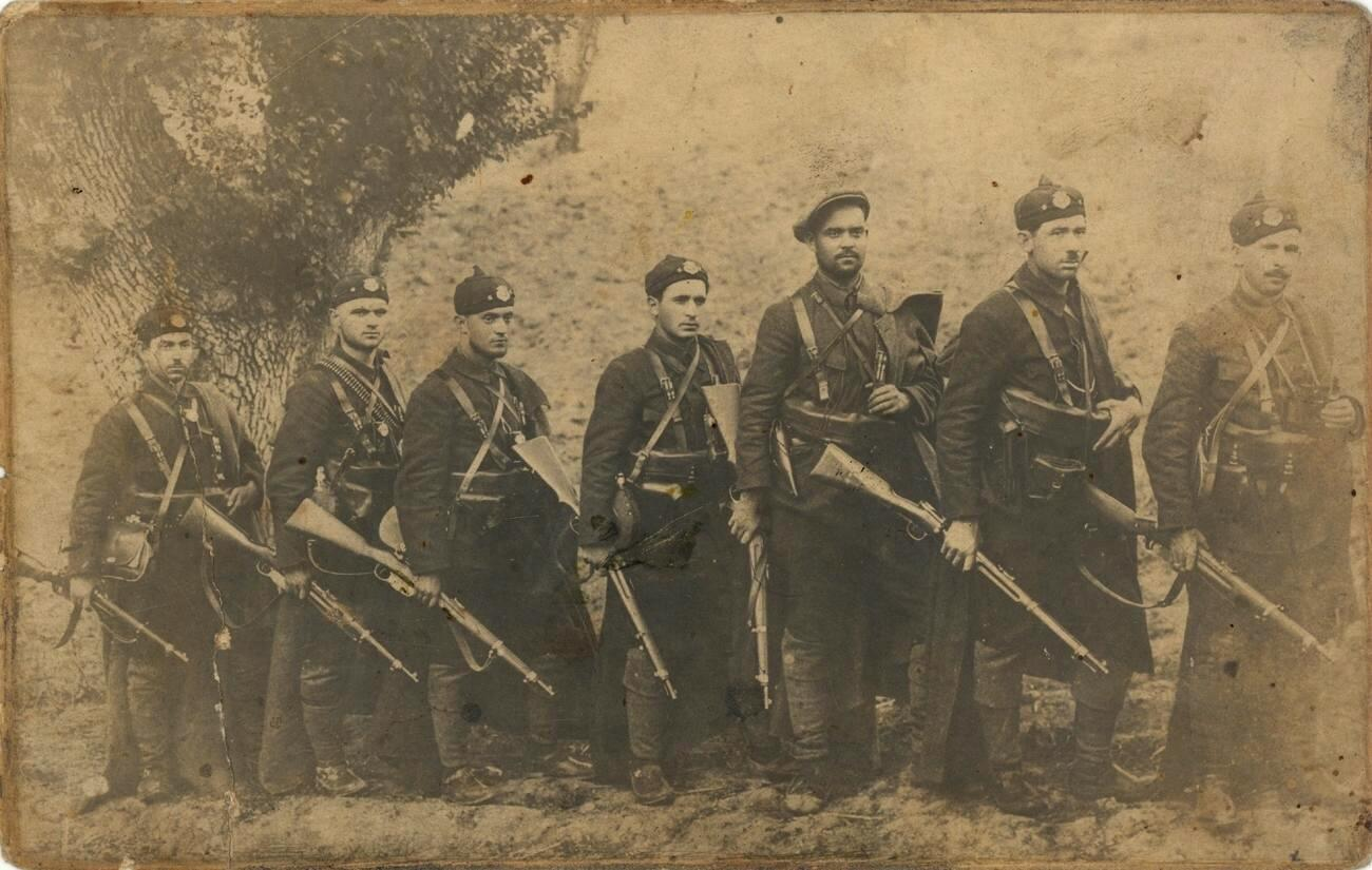 IMRO cheta Krastan Poptodorov